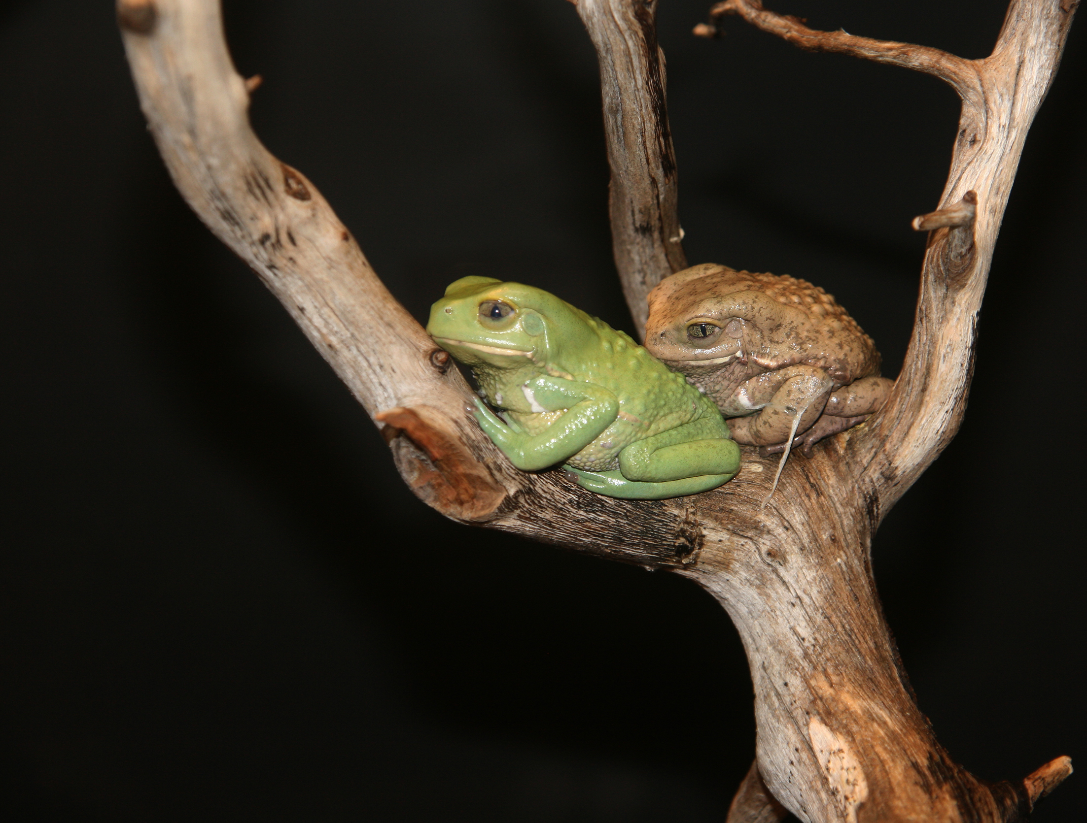 Waxy Monkey Tree Frogs, Phyllomedusa sauvagii at California Academy of Sciences